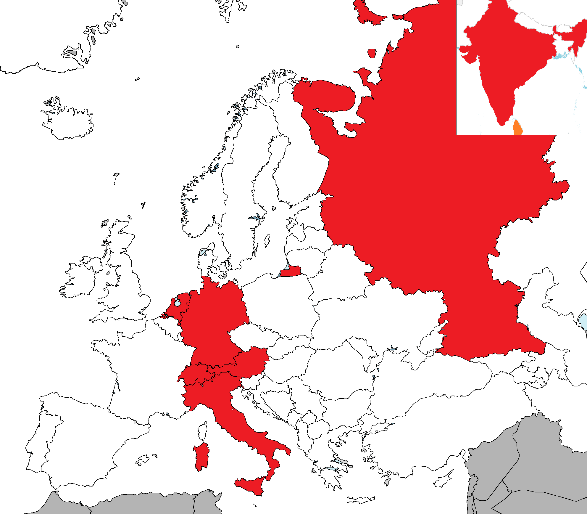 Hansken arrived counties